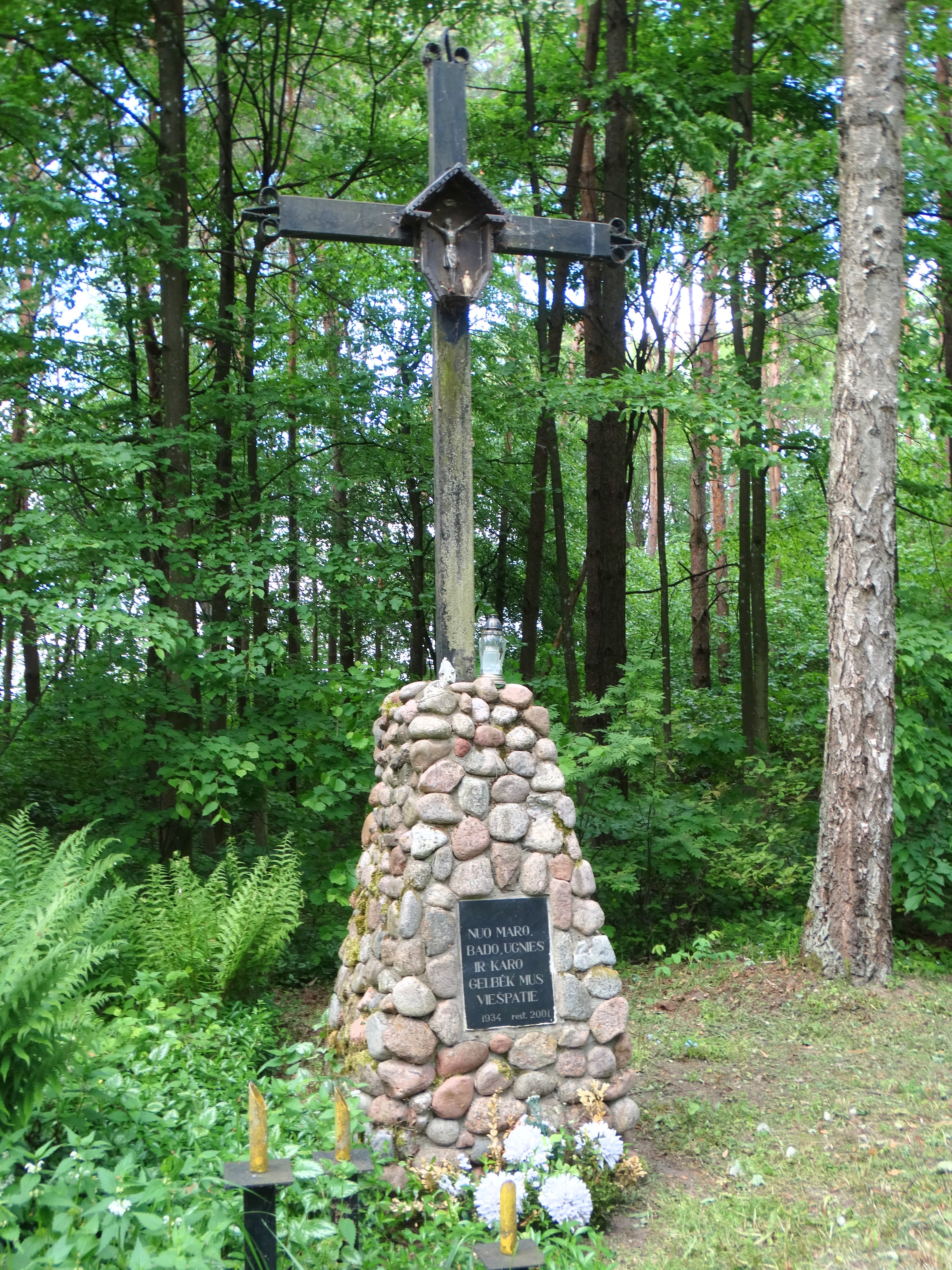 Žiegždriai, Kaunas district, Lithuania